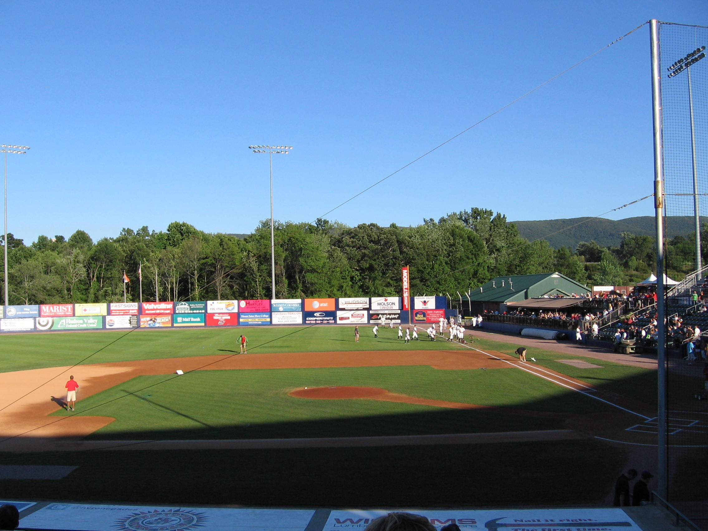 Dutchess Stadium, August 2010